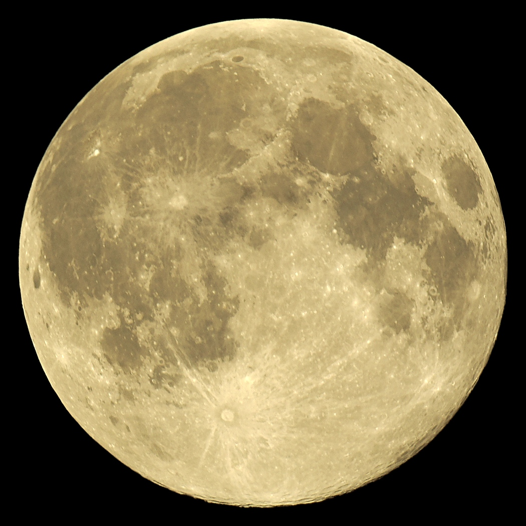 The Moon on 10 August 2014, 22.02 UT (3h52m after full phase and 4h16m after perigee; close to so-called "supermoon"). This time full Moon appeared 8% bigger and 17% brighter than a regular full moon. The image is stacked in CombineZP (method "Pyramid Maximum Contrast") from 39 photos, which were made with Sony NEX-5, attached to 10-cm-diam. reflector (exposure time 1/500 s, ISO 400). White balance was set as for Sun-lighted scenes and no subsequent color corrections were applied, so, the color must be real. The image is rotated to make north on the top and somewhat sharpened.